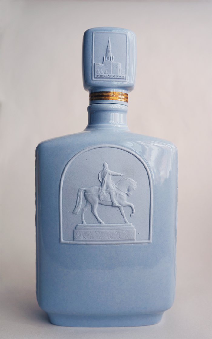 Porcelain bottle. Author Bystrushkin B.D. Leningrad. USSR.